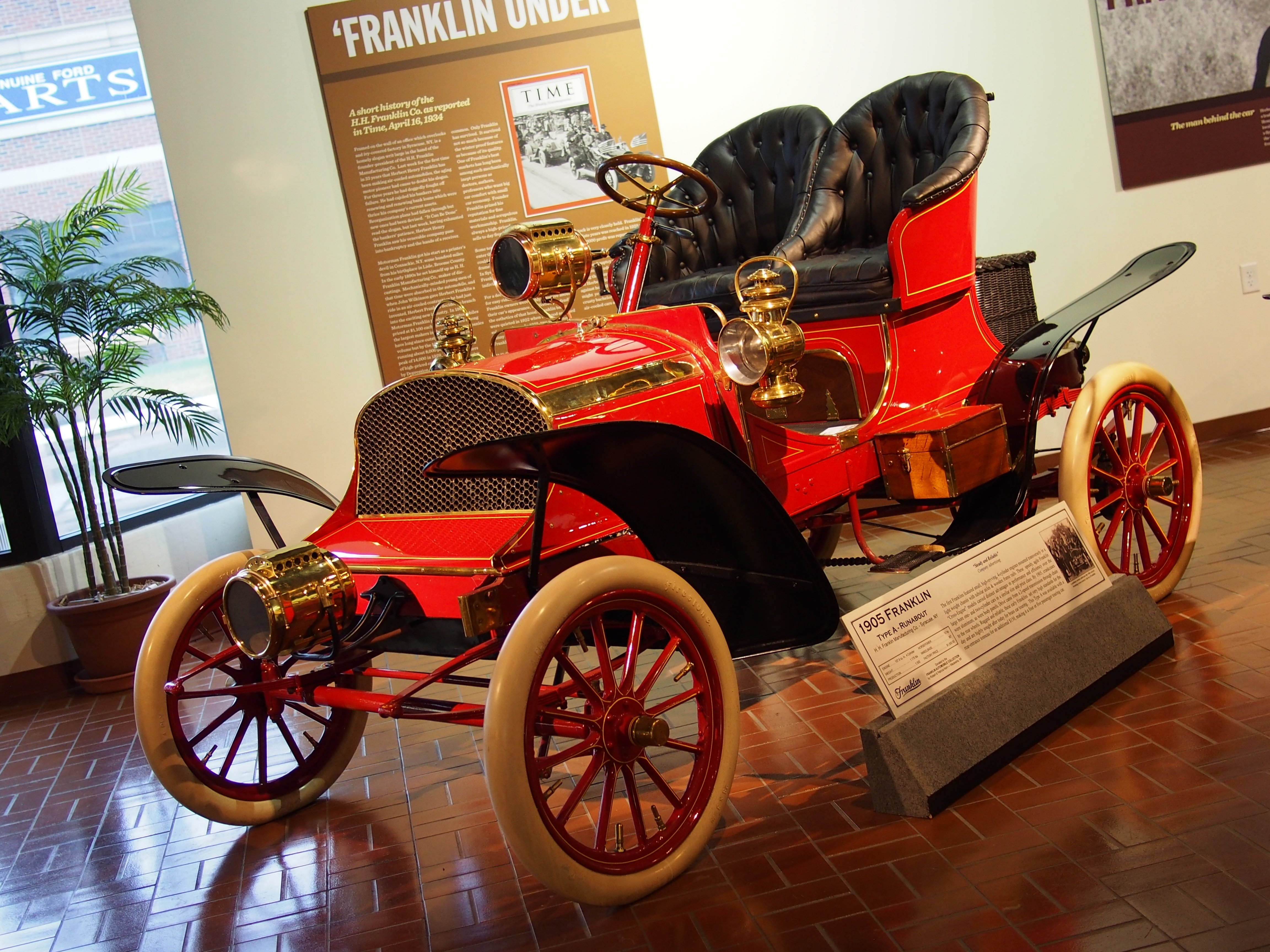 1905 Franklin Type A RunaboutGilmore Car Museum